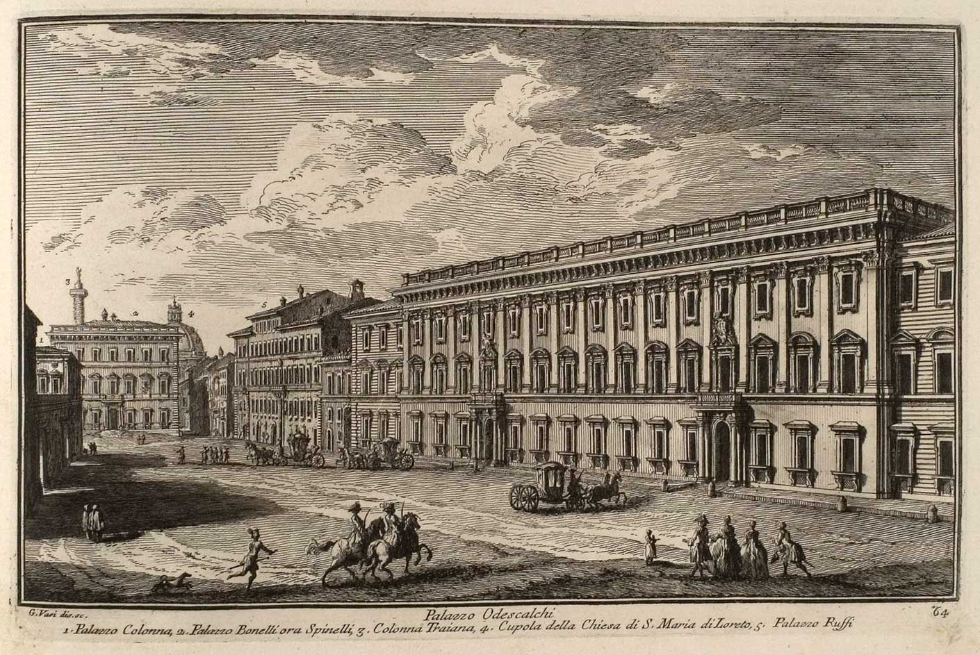 1) Palazzo Colonna; 2) Palazzo Bonelli Spinelli (now Valentini); 3) Colonna Traiana; 4) S. Maria di Loreto; 5) Palazzo Ruffi.